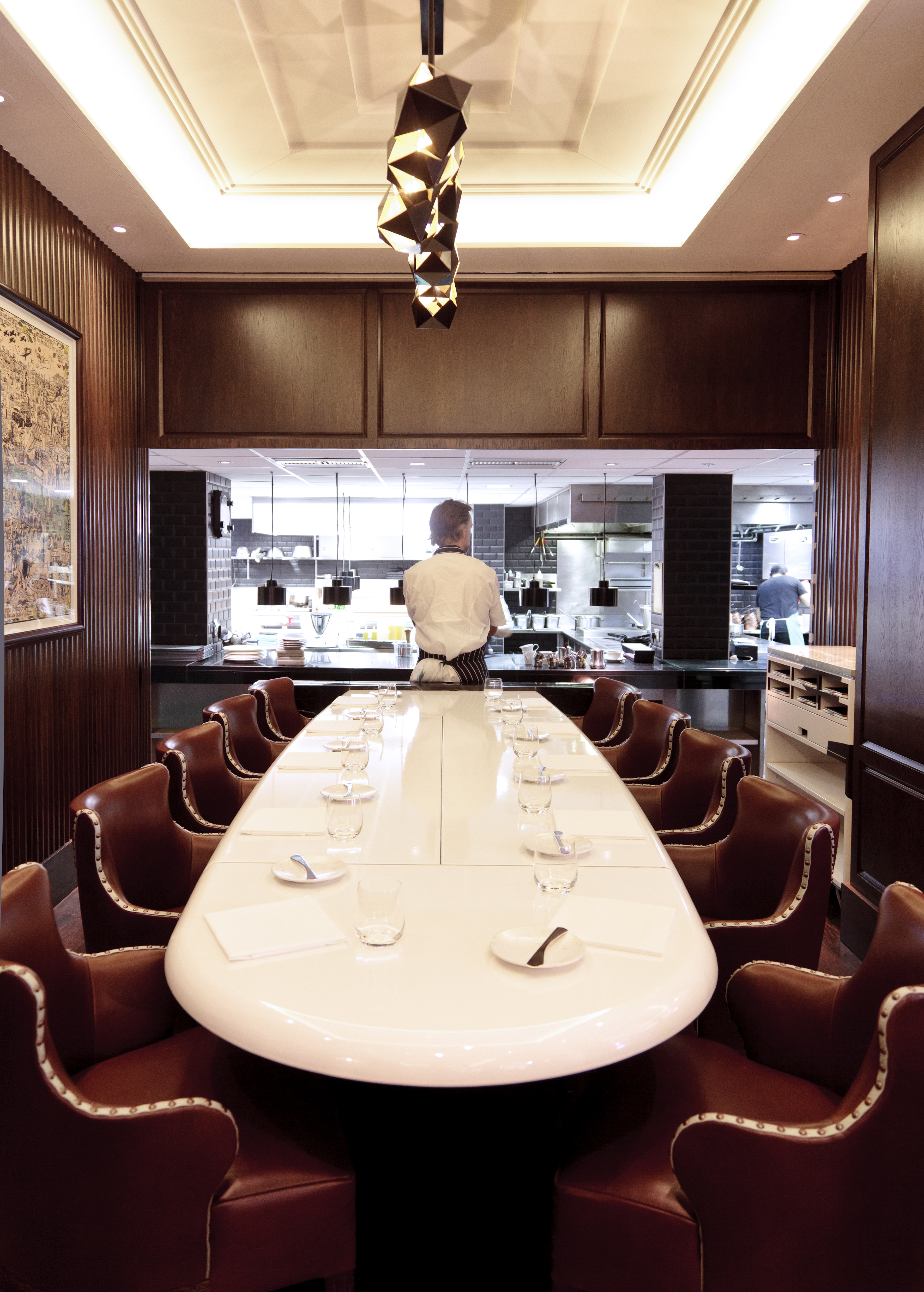 The Chef's Table at 2 michelin starred Marcus, in the Berkeley Hotel.